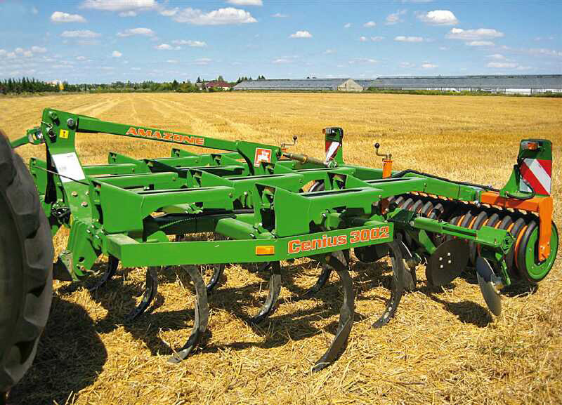 Amazone Cenius 3002 mulching cultivator.